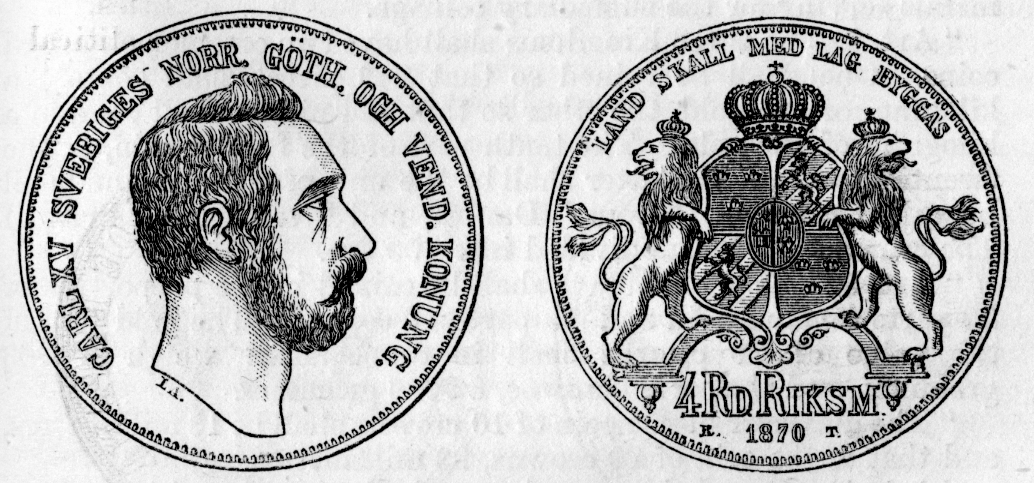 A Swedish silver four riksdaler piece of 1870, with the head of Carl XV. "Weight 1.092, fineness 750. Value 4s. 7½d." Both sides shown